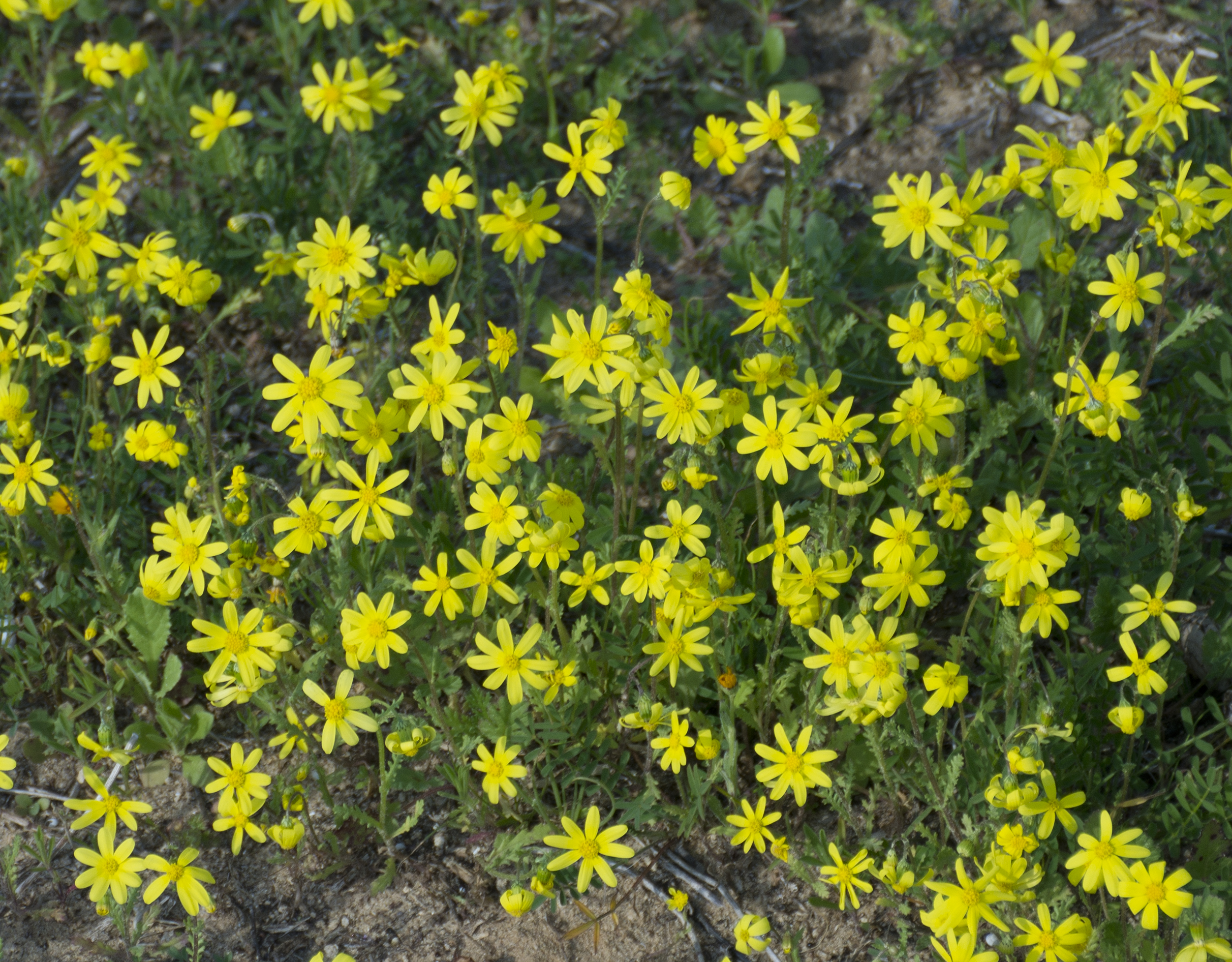 Senecio vernalis, Eastern Groundsel, Iris Hill, Rishon LeZion, Israel